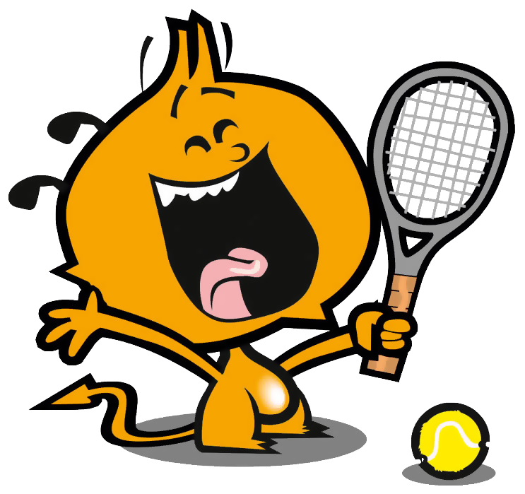 Nelson, titular hero of the Swiss comic book series Nelson, created by Christophe Bertschy.